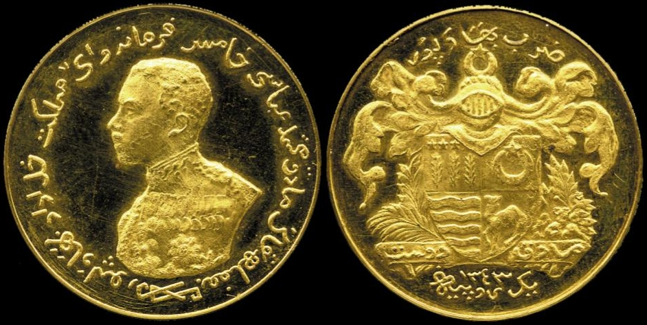 PRINCELY STATE Bahawalpur(Now In Pakistan) Gold Coin Of One Rupee Sadiq Muhammad Khan V (AH 1325-1365; 1907-1947 AD)